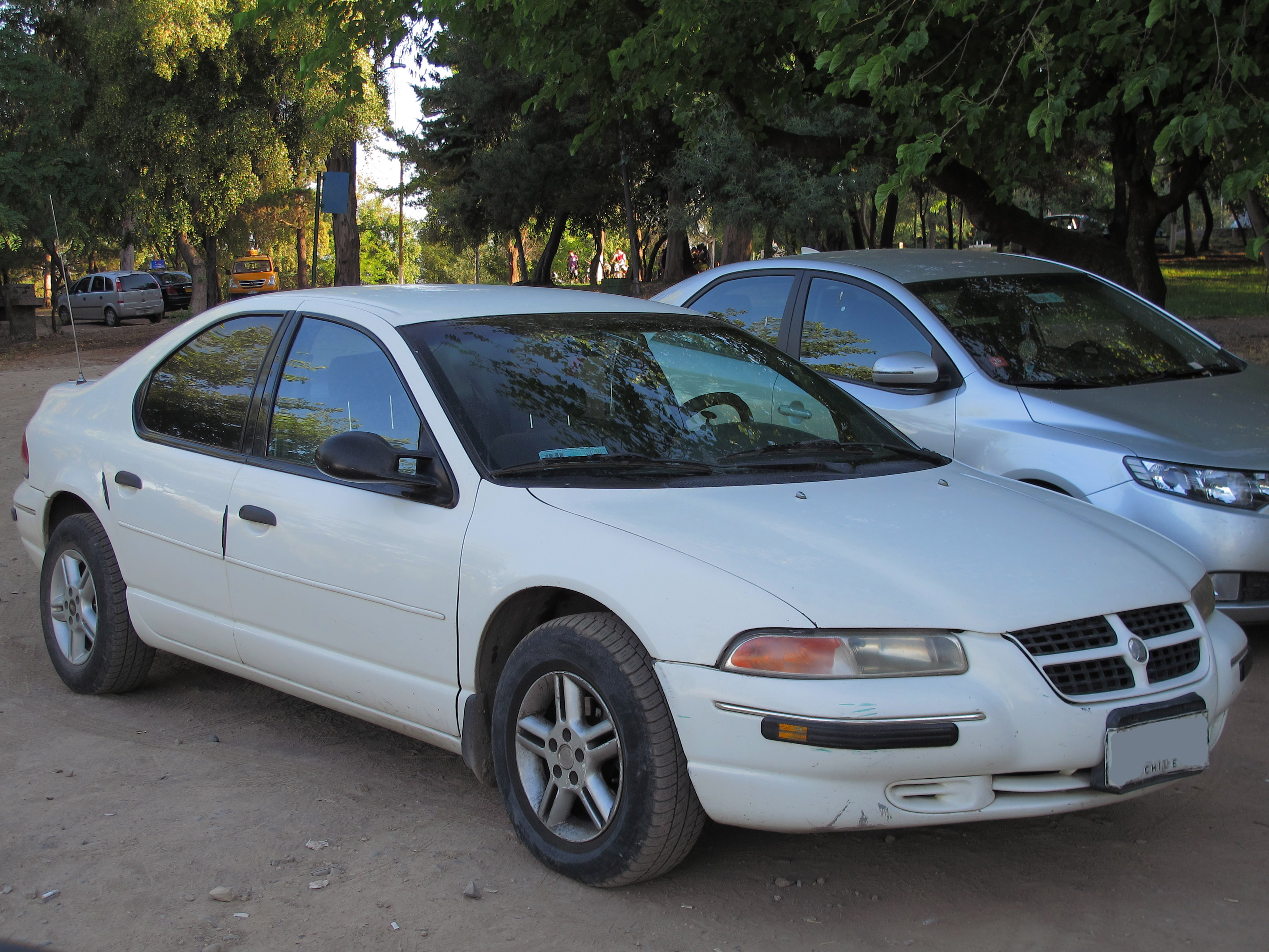 Chrysler Stratus 2.4 LE 1996